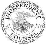 Seal of the Office of the Independent Counsel